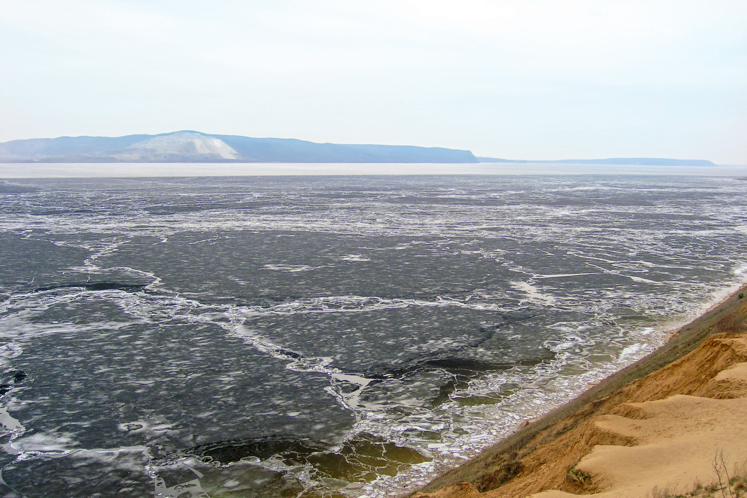 Volga near Tolyatti, Russia, early springtime